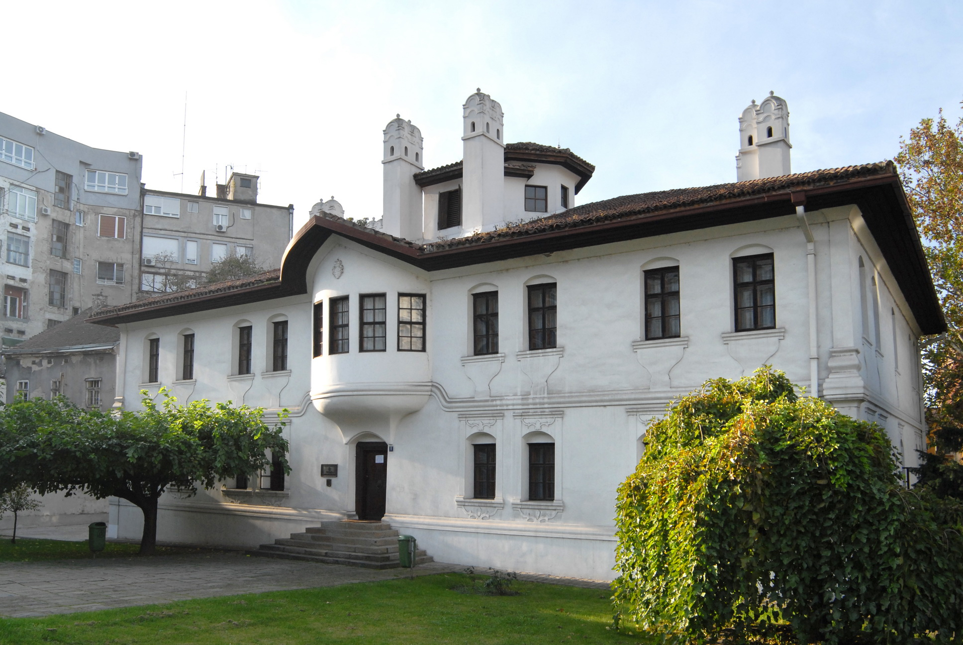 Спољашњост конака